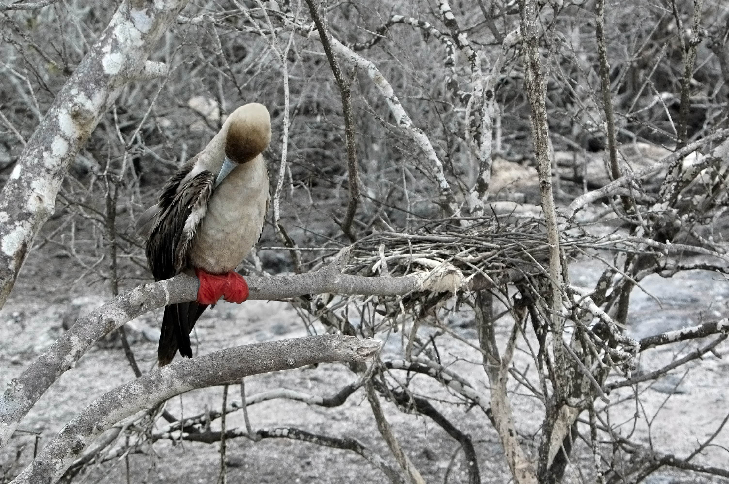 Red-footed Booby (Sula sula) sitting near its nest on the isle of Genovesa, Galápagos Islands.